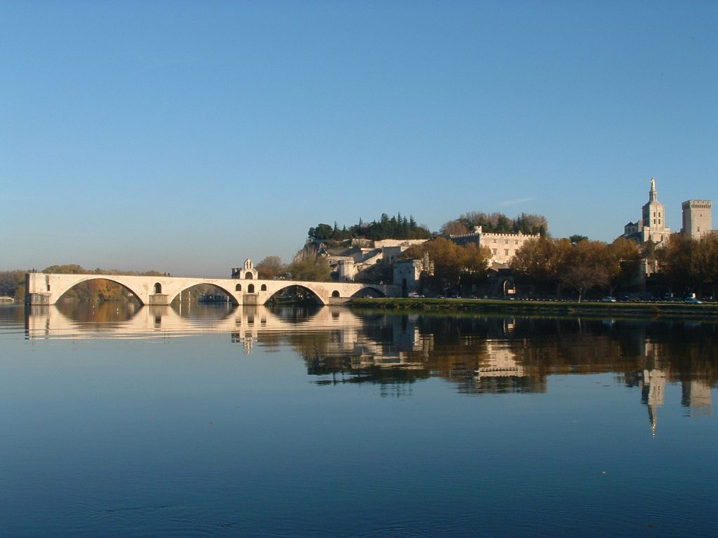 The bridge over the River Rhône at Avignon (photograph taken from the island of Barthelasse)